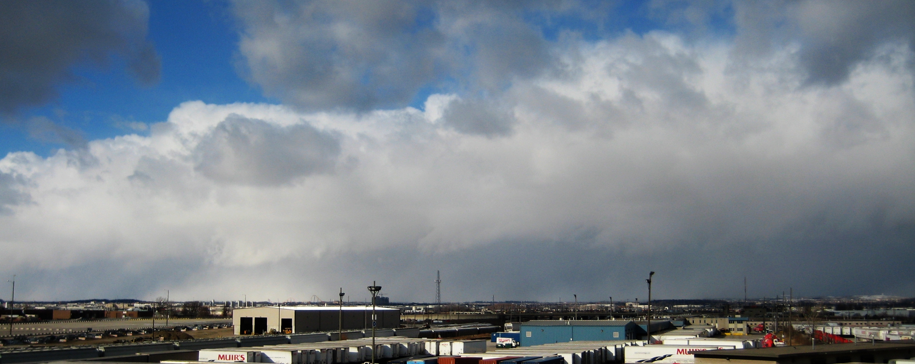 A lake effect snow squall (snowsquall) roughly 6 kilometers away drops heavy snow over the communities of Newmarket, Aurora and Stouffville. Lake effect squalls are noted for their persistence and linear banding, this particular squall is a dominant single banded snow squall producing snowfall rates in excess of 7cm/hr and producing blinding visibilities on highways 400 and the 404. See these images for perspectives under the squall. Whiteout - Car Accident